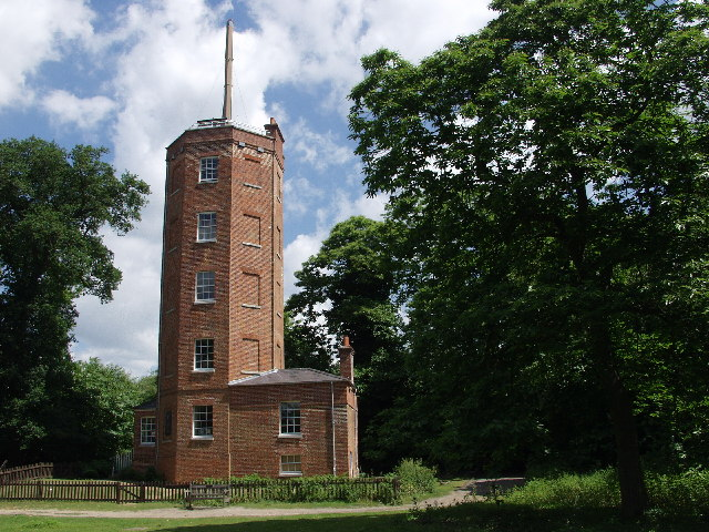 Chatley Heath Semaphore Tower. This semaphore tower was one in a line of towers used by the Admiralty for communications between London and Portsmouth. It was destroyed after a fire but has been lovingly restored and is now open to visitors. (National Trust)